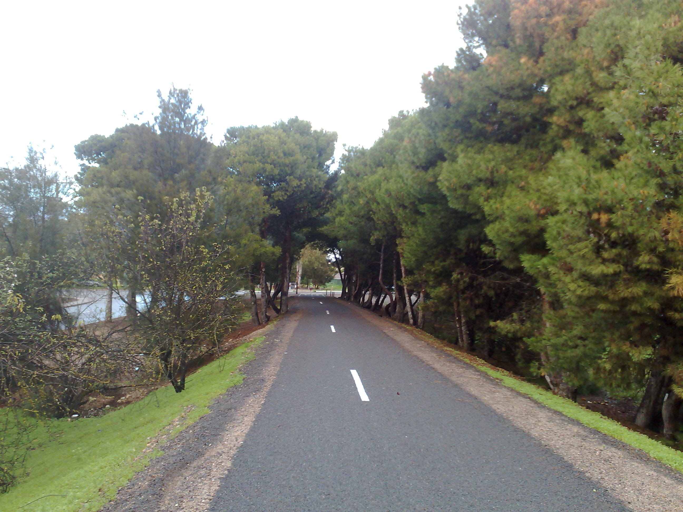 Photo of the Willunga-Marino RailTrail in Reynella, South Australia. I took this photo myself.